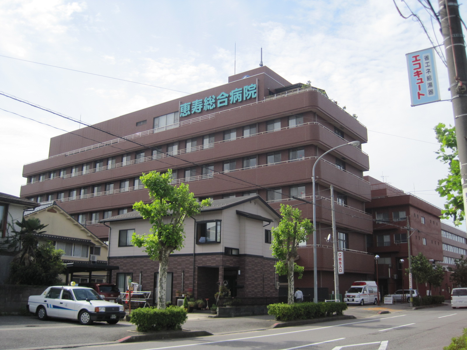 Keijyu Hospital (Nanao city, Ishikawa prefecture)